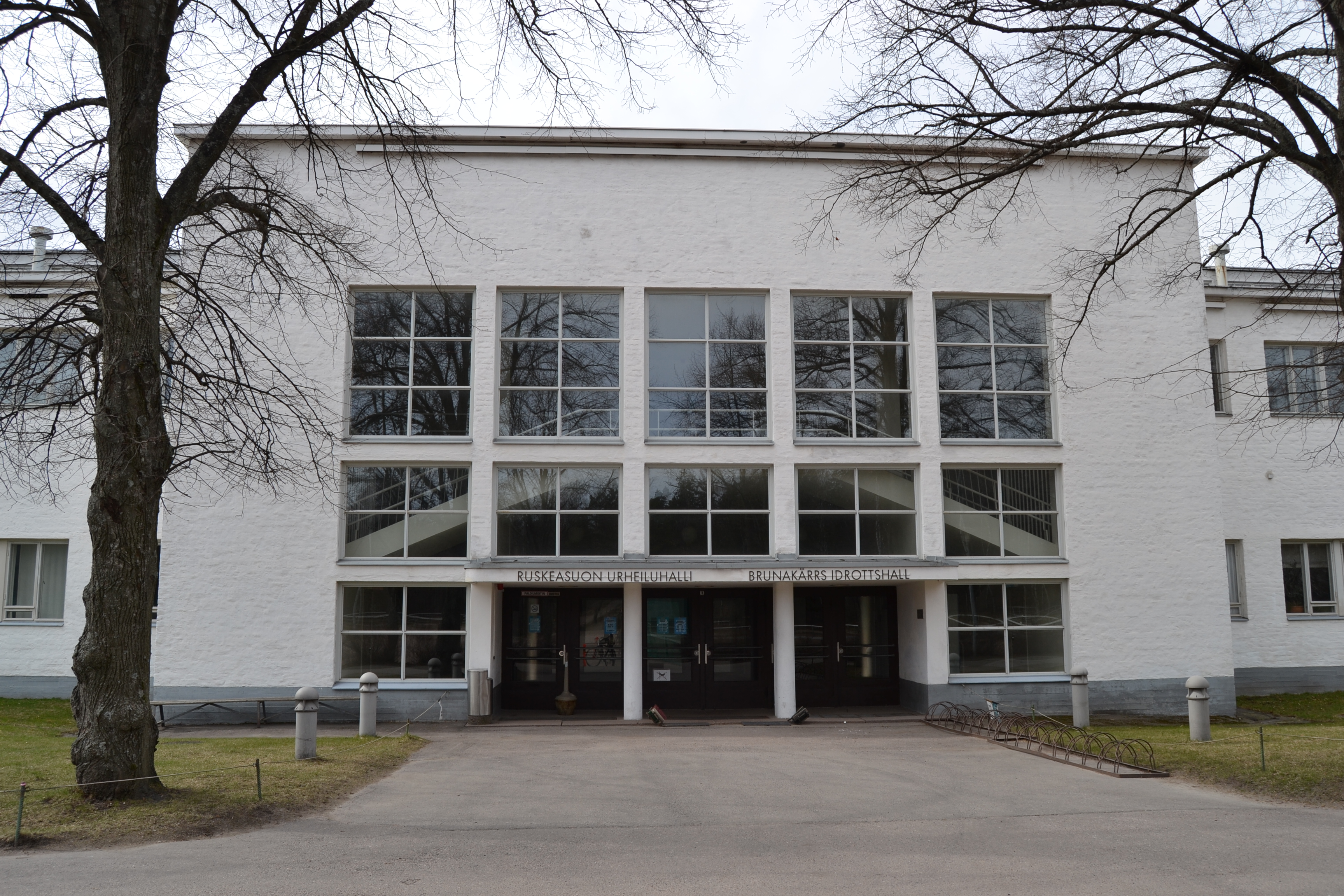 Ruskeasuon urheiluhalli (Ruskeasuo sports hall) in Ruskeasuo, Helsinki.